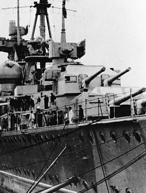 Photograph clip showing rear 203-mm (8-inch) guns of German cruiser Prinz Eugen, at Kiel, 1941.